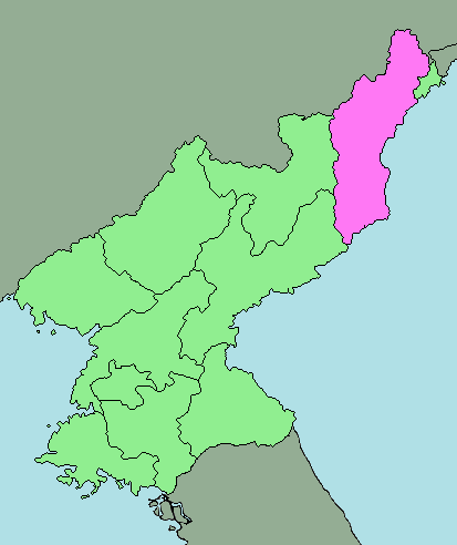 area map of Hamgyongbuk Province